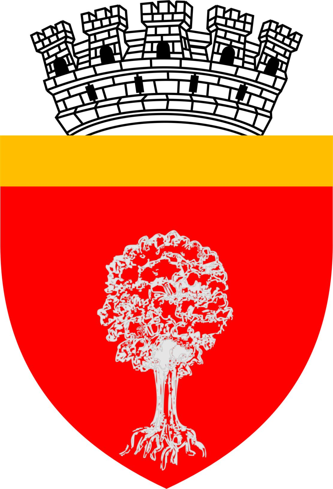 Coat of arms of Oneşti.